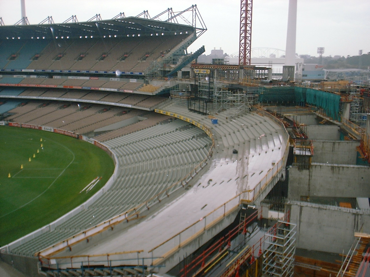 Created by myself in October 2003, during the MCC Members Stand public tour week, which was the last time the general public could gain access to the 1926 MCC Members stand before it was demolished and replaced with the current stand. Anyone can use this image for any reason.